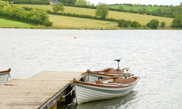 Boats on the Corbet Lough near Banbridge Not many anglers about today so most of the boats were tied up.